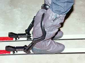 This image shows the Nava binding system and its associated custom ski boots. The boots are soft above the sole, like a normal winter boot. The black arm rising along the back of the leg provides the side-to-side support needed for "edging" the skis to turn. Behind the arm is a spring arrangement that holds the arm against the leg.